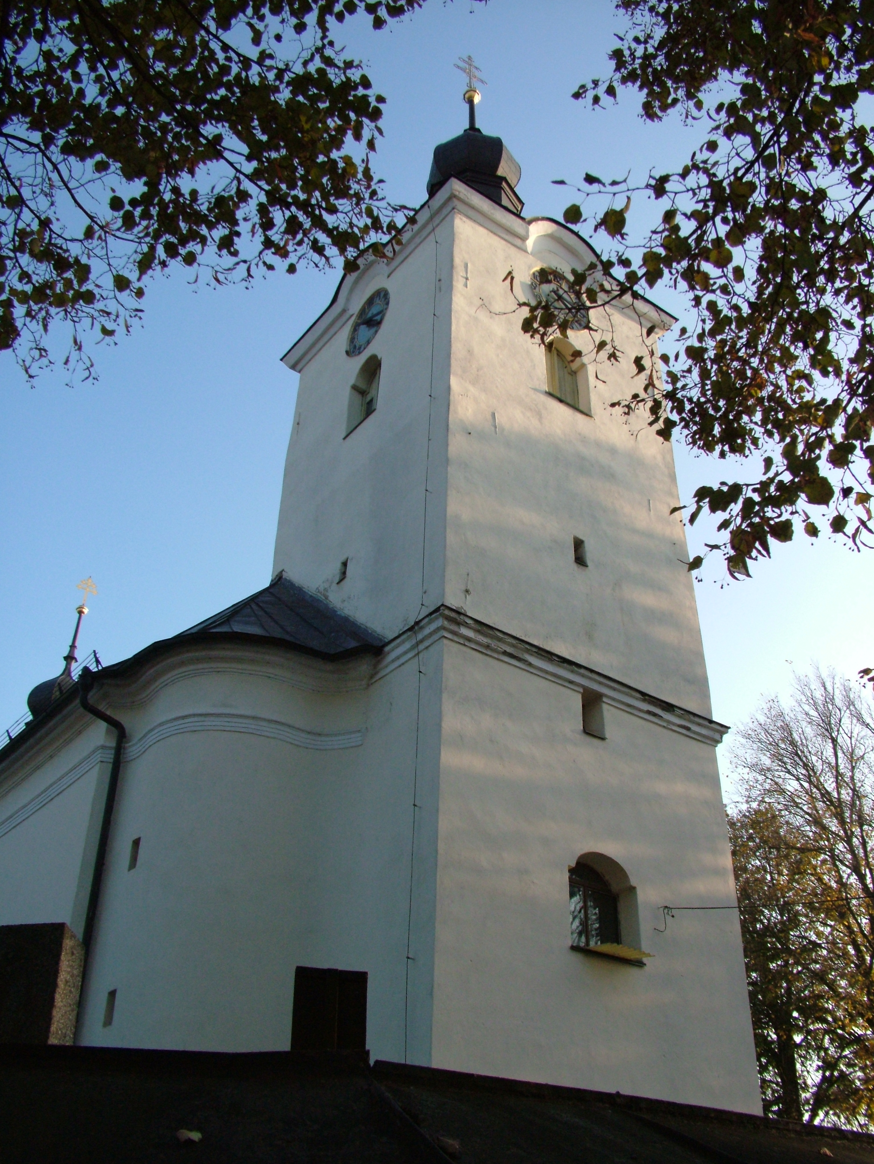 Church in Zhoř in Jihlava District, Czech Republic